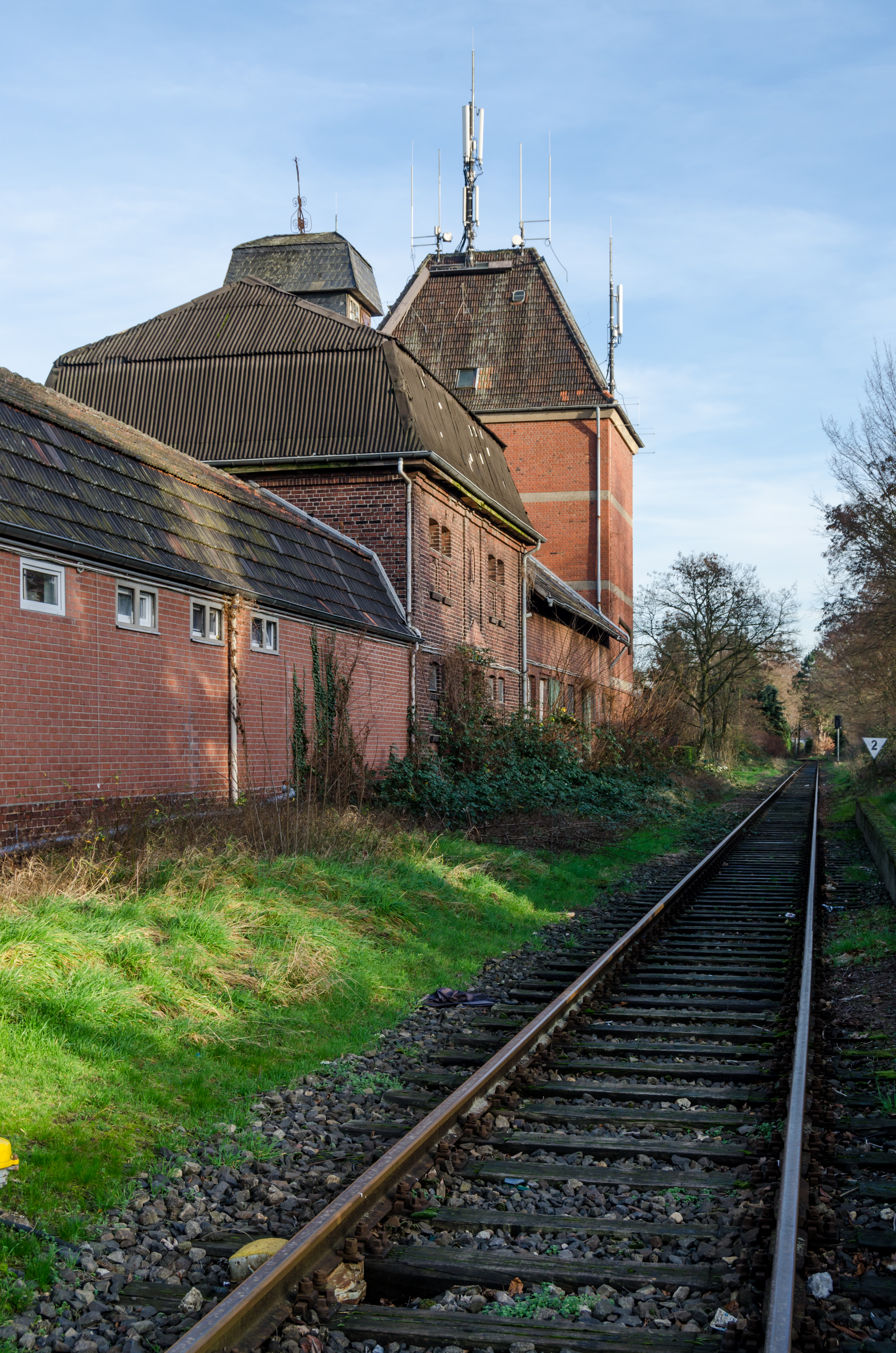 Rheinberg (North Rhine-Westphalia, Germany) – district Budberg – residential and commercial building at the Rheinberg–Moers Railway